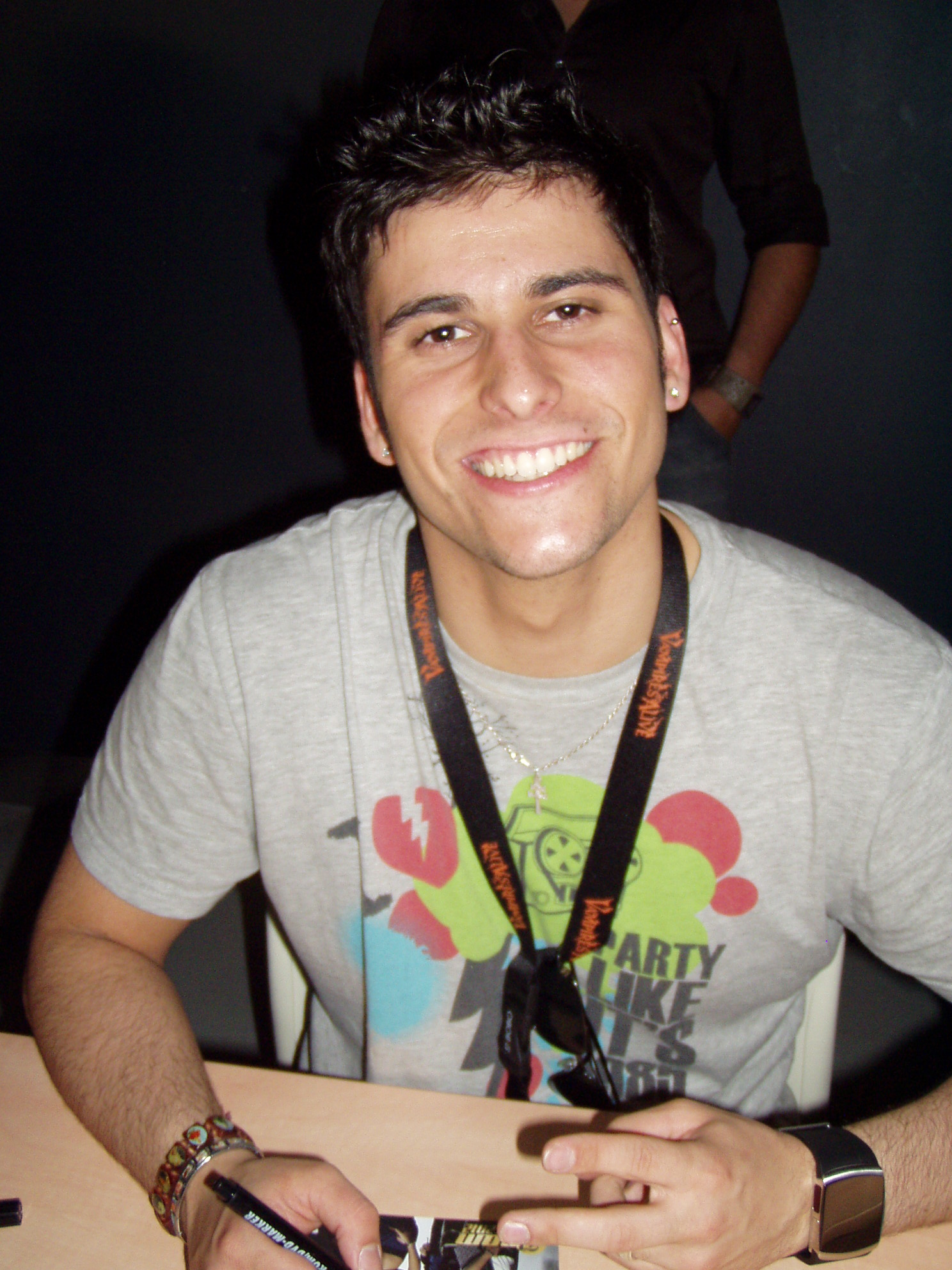 Room2012 - Member Cristobal Galvez Moreno